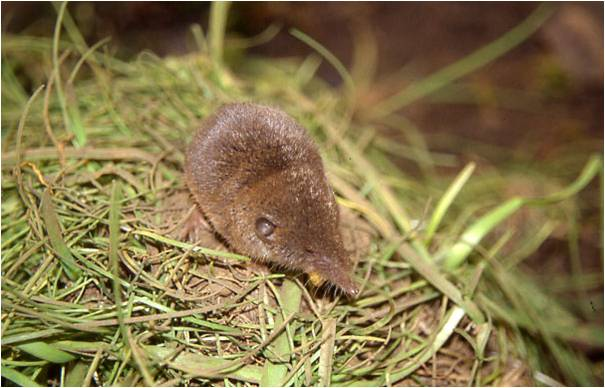 Crocidura pachyura